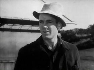 Cropped screenshot of Henry Fonda from the film Slim